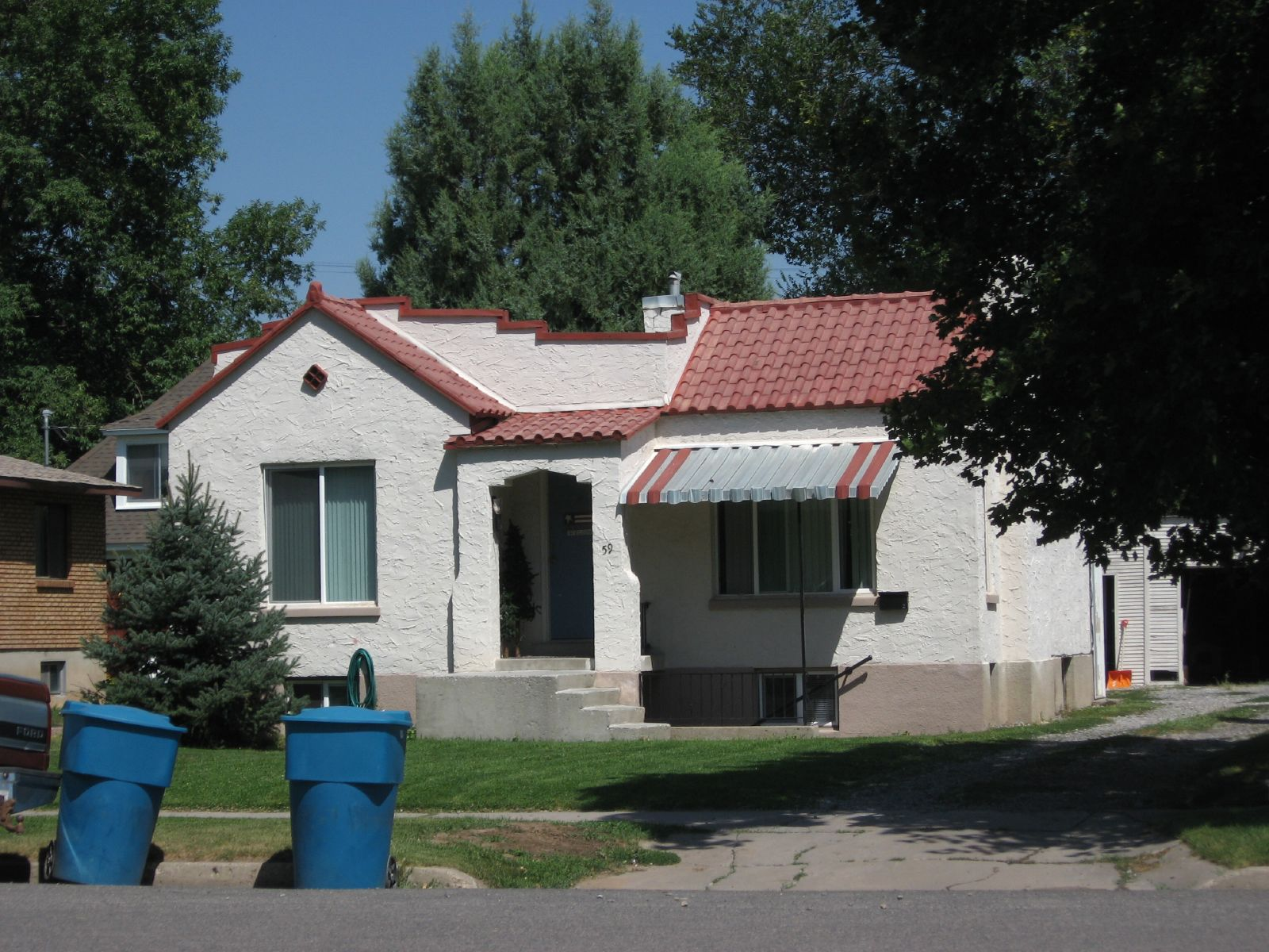 You got, like, three feet of air that time!